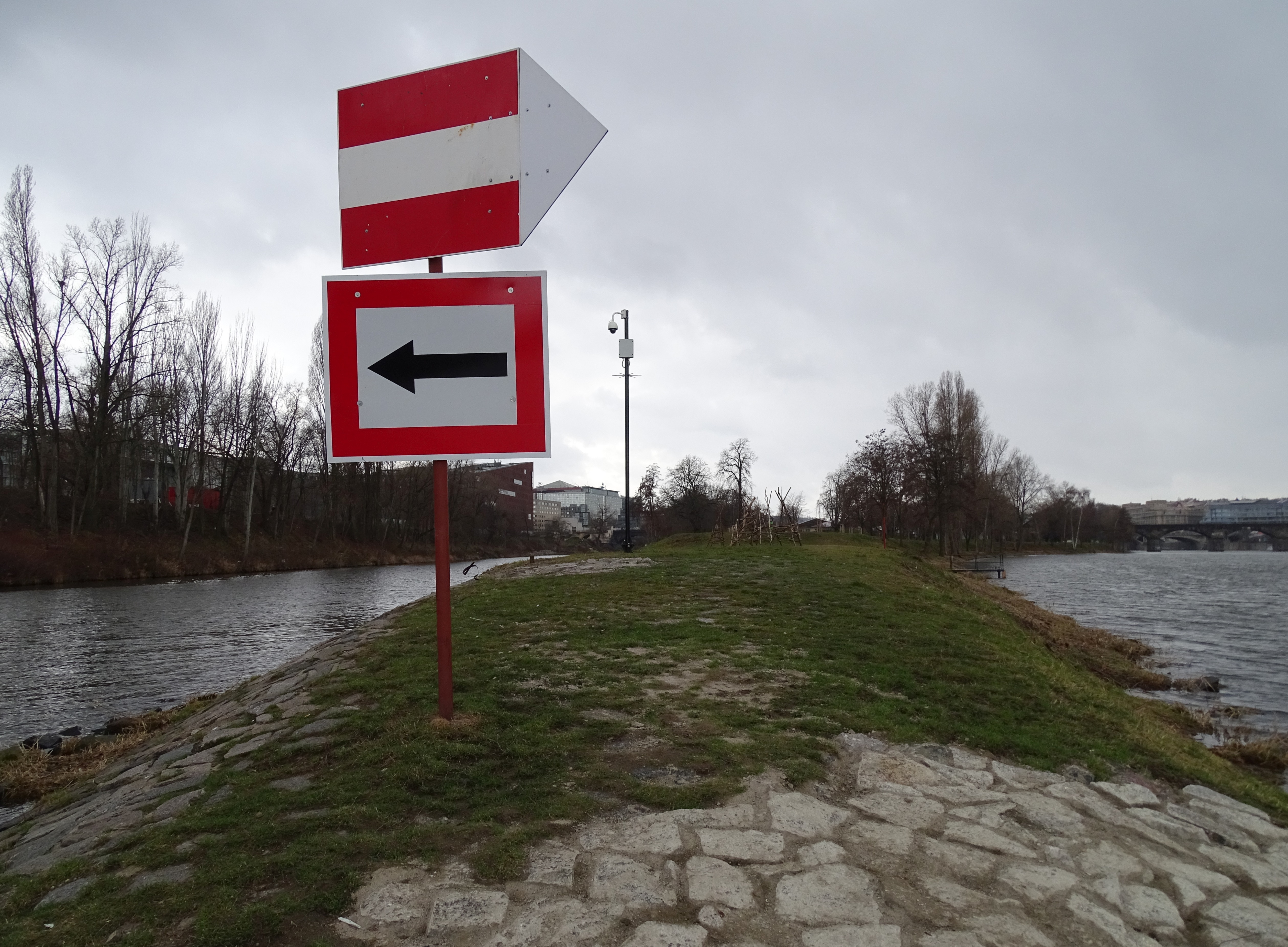 Prague-Holešovice, Czech Republic. Štvanice island, the east part.